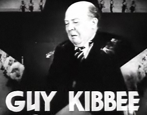 Cropped screenshot of Guy Kibbee from the trailer for the film Dames.